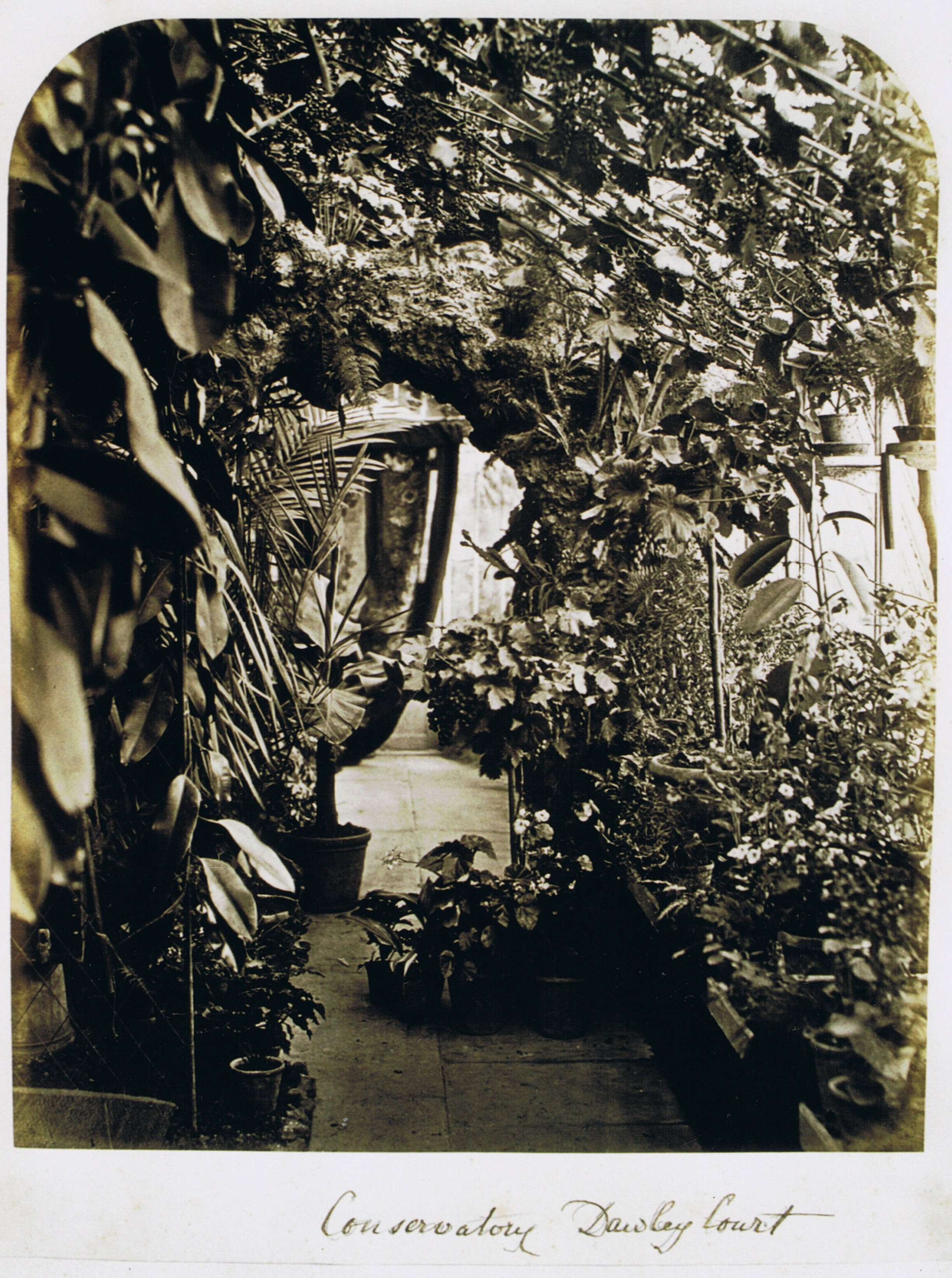 photo, by R. de Salis, October 2009, of a c1870s photo of the conservatory at Dawley court, south of Hillingdon, MiddlesexRodolph (talk) 22:56, 24 October 2009 (UTC) Photo & conservatory part of collection of William Andrew Salius Fane de Salis.Rodolph (talk) 22:40, 9 November 2011 (UTC)